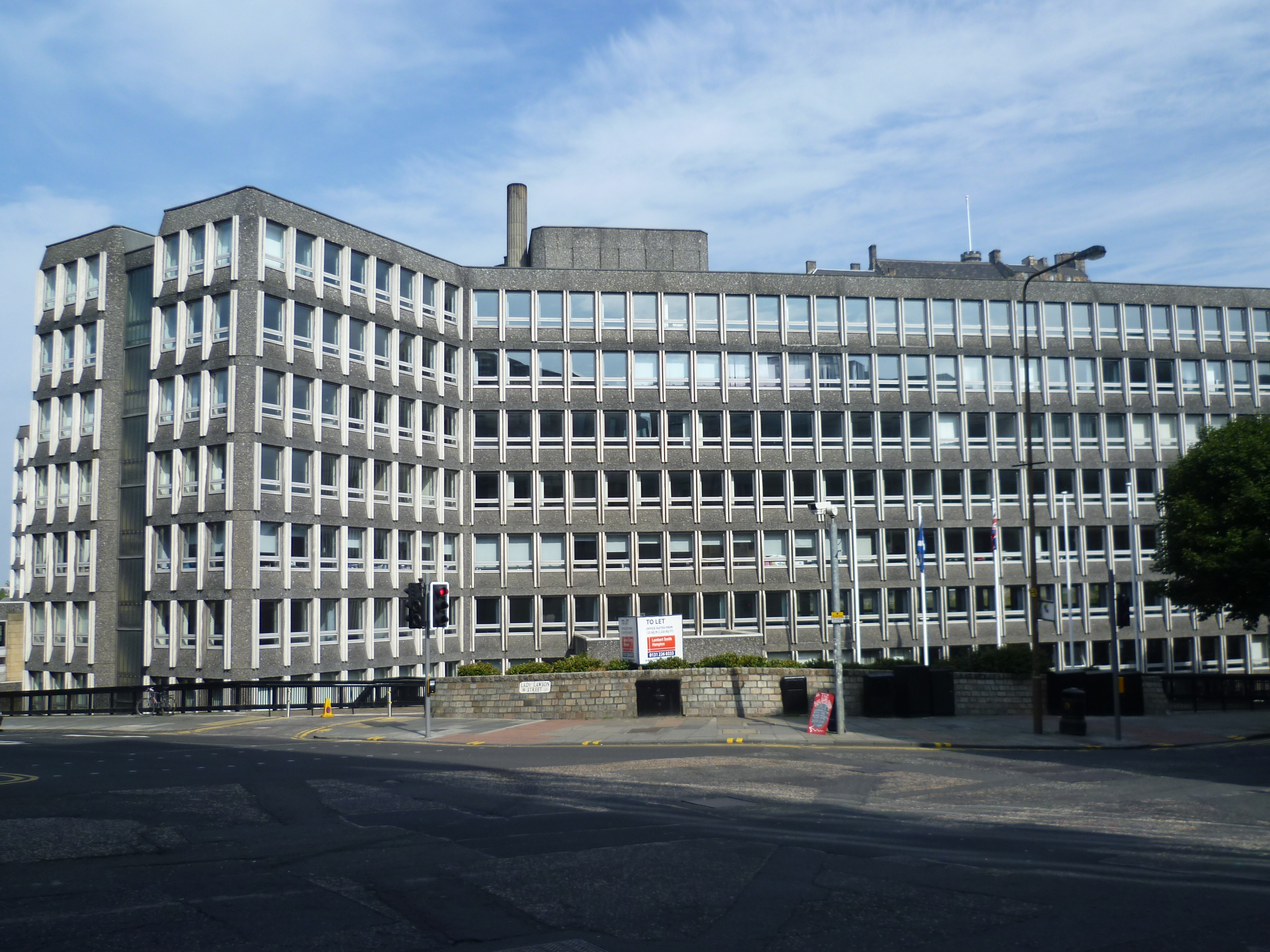 Note the highest point of Edinburgh Castle, with flagpole, just visible (centre right) above the roofline. For anyone at street level the building blots out one of the most impressive views of the Castle.